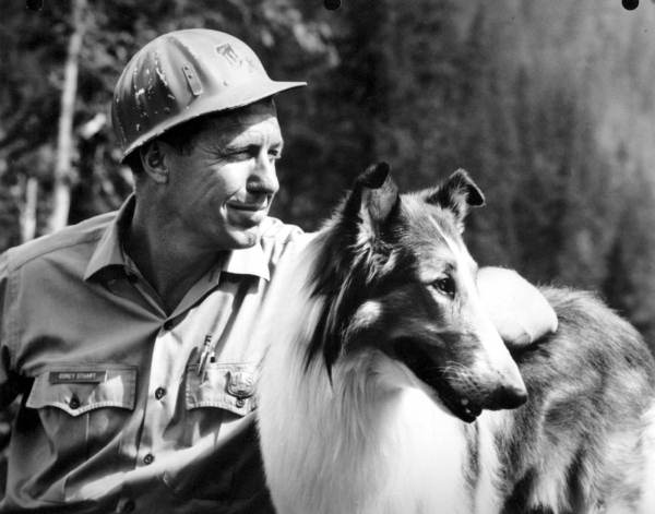 Robert Bray played forest ranger Corey Stewart with Lassie in the CBS television show Lassie.